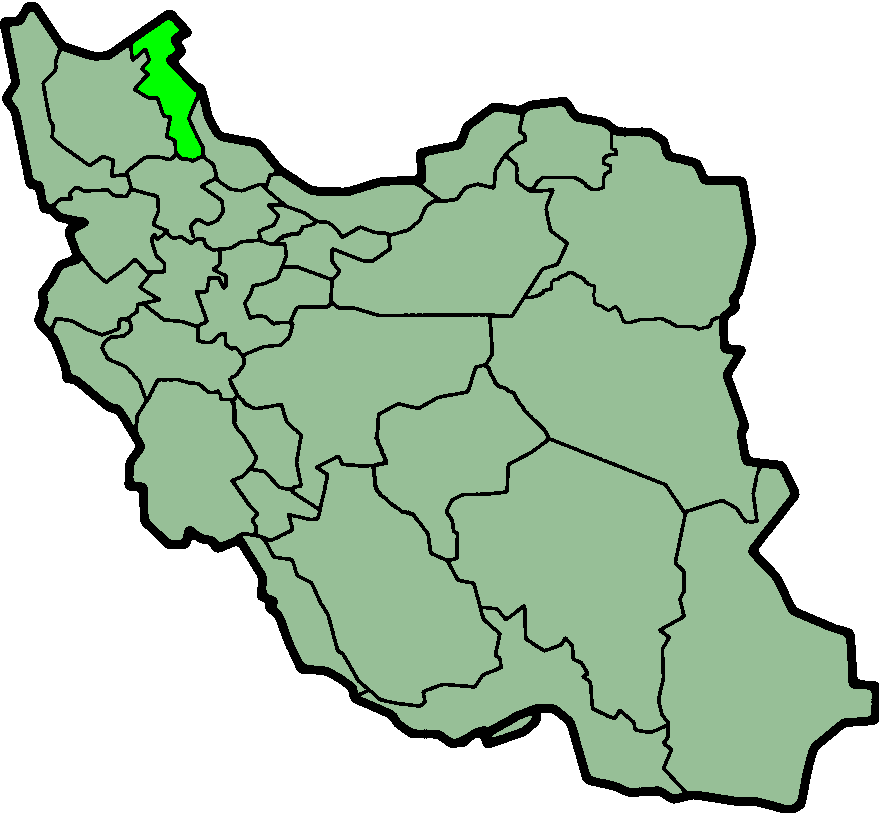 Province of Ardabil, Iran